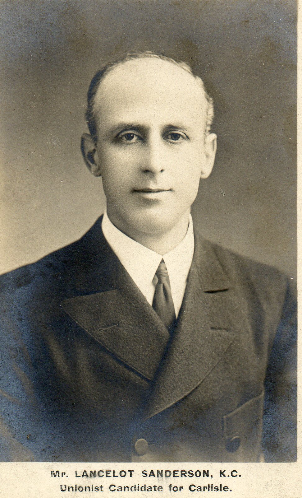 Copy of old postcard circa 1905